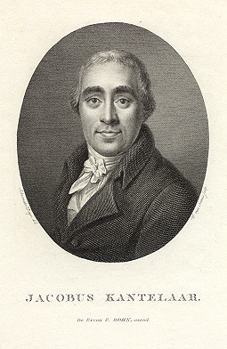 Portrait of Jacob Kantelaar, Dutch theologian, writer and politician (1759-1821)